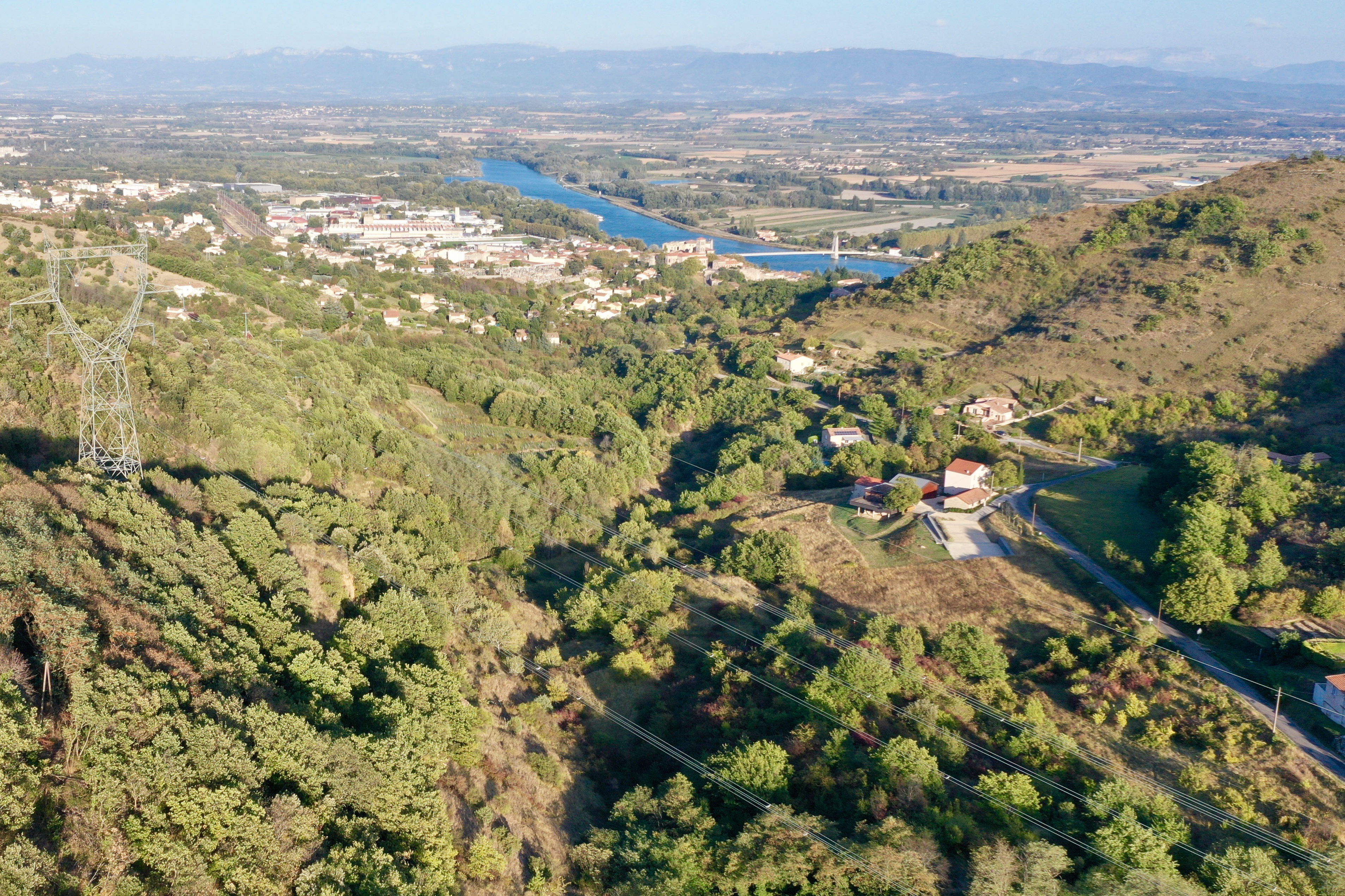 The little mines ravine of the Voulte lagerstätte as seen from a drone.